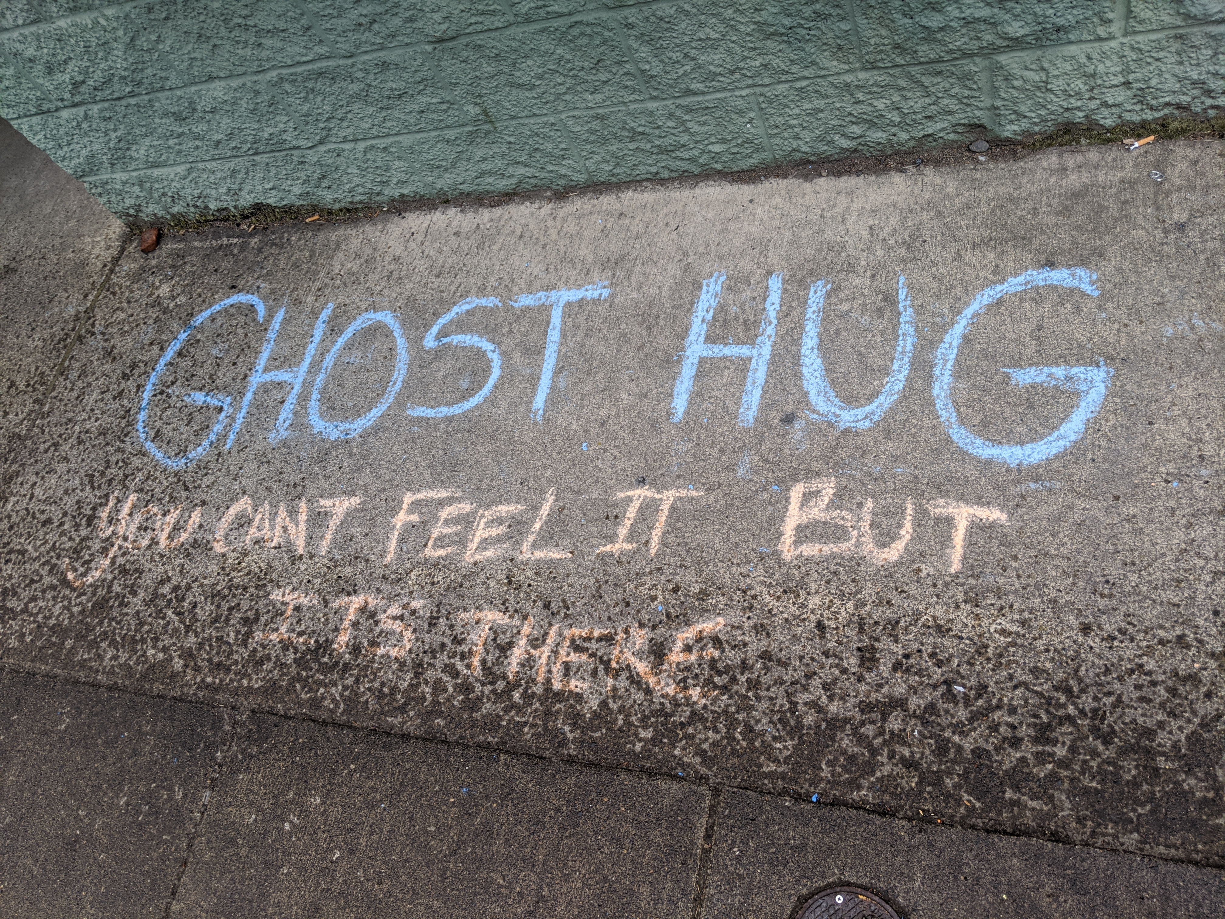 Chalk writing on a sidewalk, stating GHOST HUG YOU CANT FEEL IT BUT ITS THERE